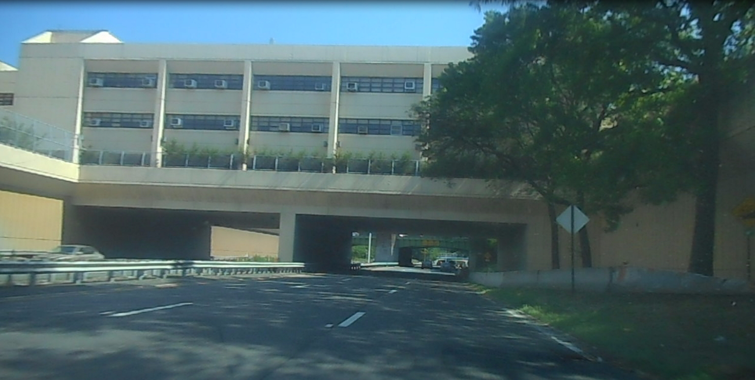 View of the Herbert H. Lehman High School over the Hutchinson River Parkway, in the Schuylerville section of the East Bronx, New York City. Taken from the northbound lane in a moving car with my camera on it's video function, so I didn't miss anything.